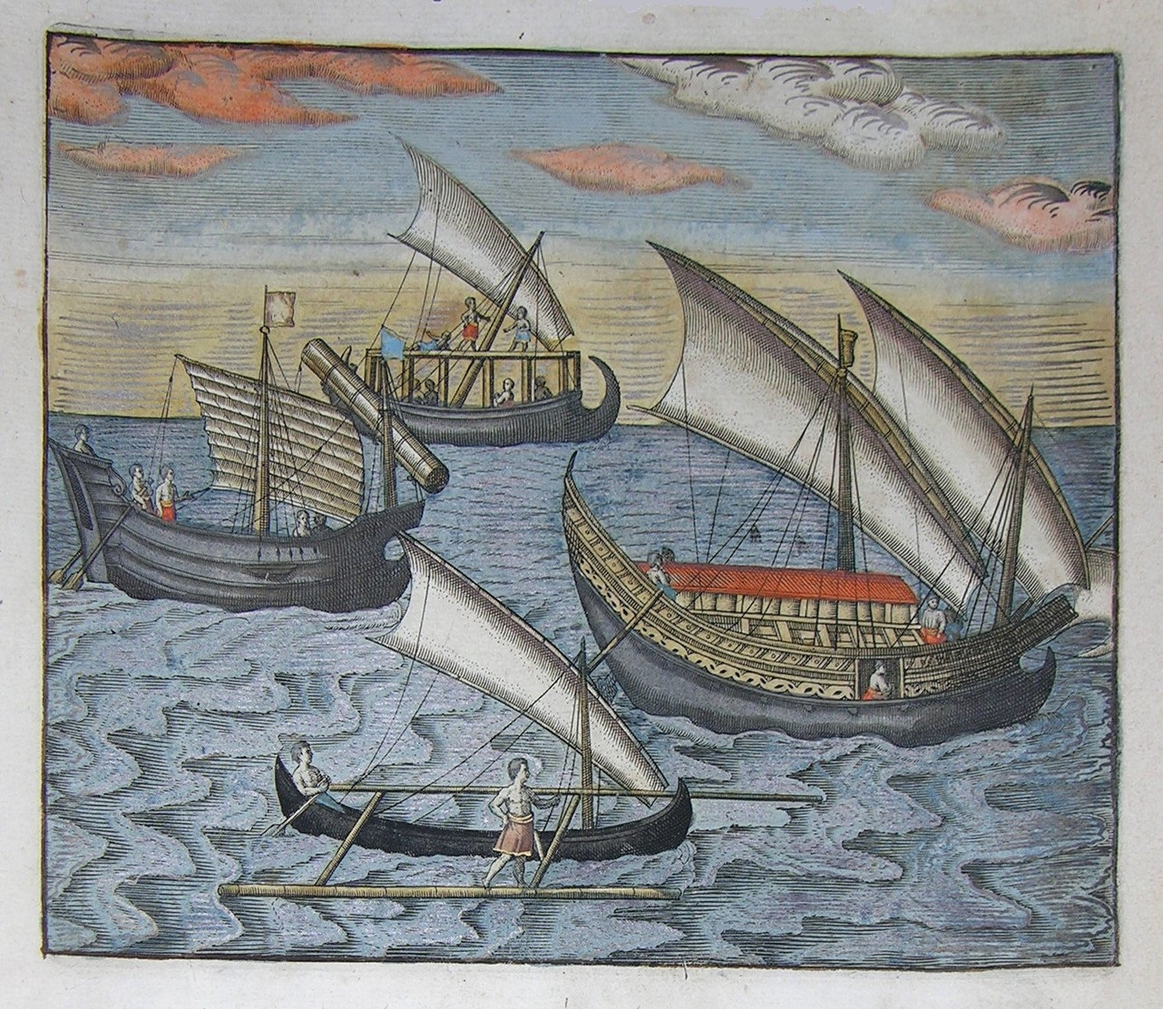 De Bry, Johann Theodor, (1560-1623) and Johann Israel de Bry (1565-1609). Part III, Plate 28, Shown are Four Kinds of Ships Which the Bantenese Use. From the "Little Voyages"ASIAN VESSELS IN BANTAMThe illustration shows four different types of vessel in the harbor of the trading town of Bantam on the northwestern tip of Java. The vessel on the right, with the high running aft and the two yards is called a iuncos in the journal, which is also called Junk, after the Javanese word Djong. Left we see a Chinese Junk. In the rear, there is a proa with a bowed prow and aft, used by the Javanese for trade along the coast. The foreground shows a proa with double outriggers. The Dutch called them 'kites', because they seemed to skim across the water so fast, it seemed as if they were flying.Shown are four kinds of ships which the Bantamese useThe Indians have another four kinds of ships the one kind is big with two masts and sails. The other kind is slightly smaller so that they can transfer the wares from one place to another. The third kind are very small fishing boats which are so fast as if they could fly that's why we call them the flying. The ships sails are woven out of weed and are very popular in Bantam several are also made from leaves of the trees they also use pipes for the boat they don't have a back rudder they just use a hand paddle on each side which they can handle very skillfully.